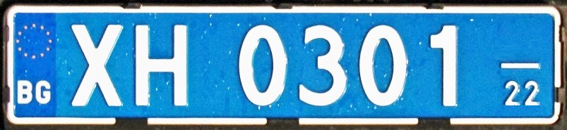 Bulgaria foreigner license plate